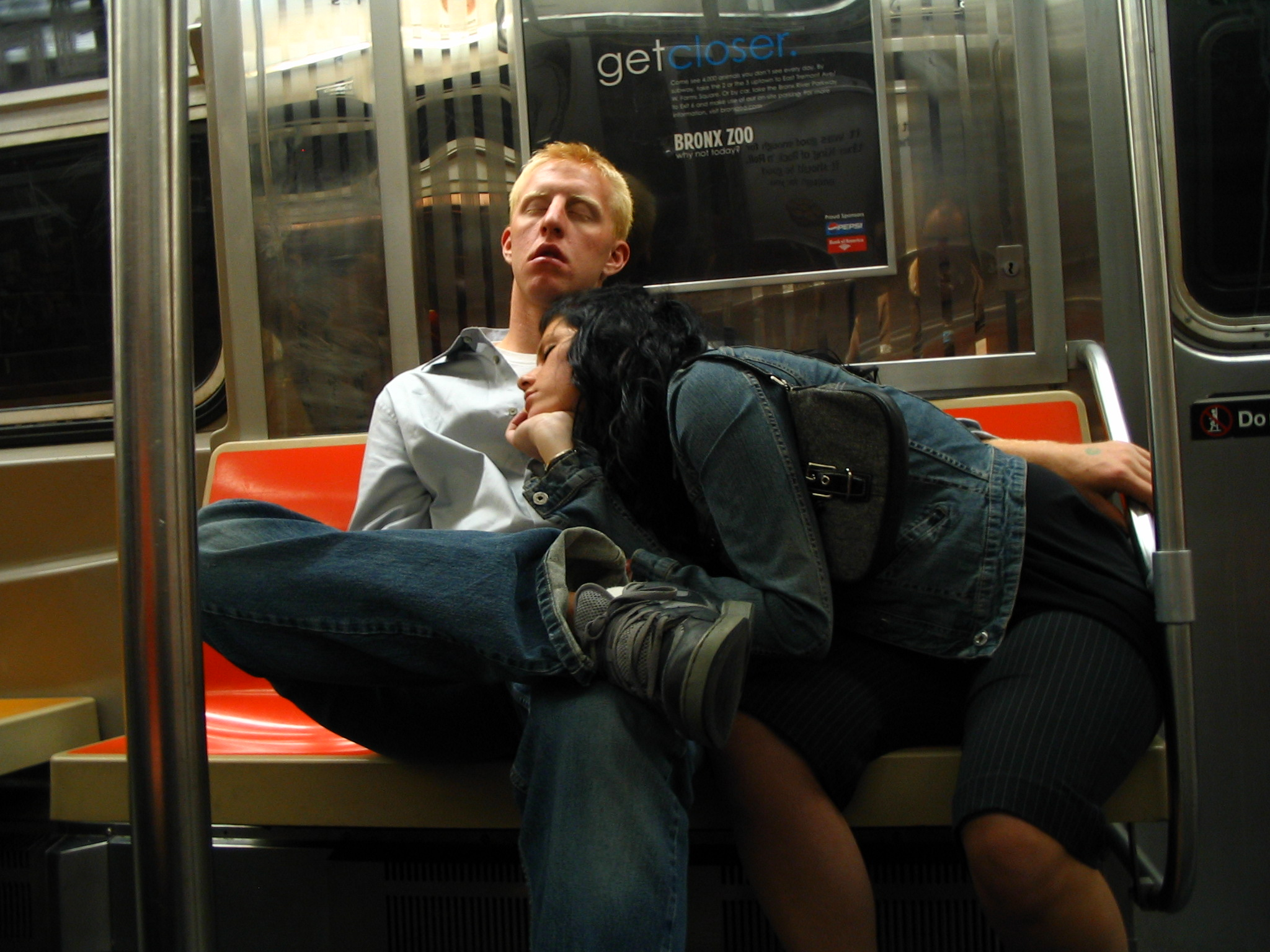 I caught this couple snoozing on a late night train a few weeks back, and just thought something about their comfort with eachother was really cute. That, and it was funny that they were completely passed out on the train!